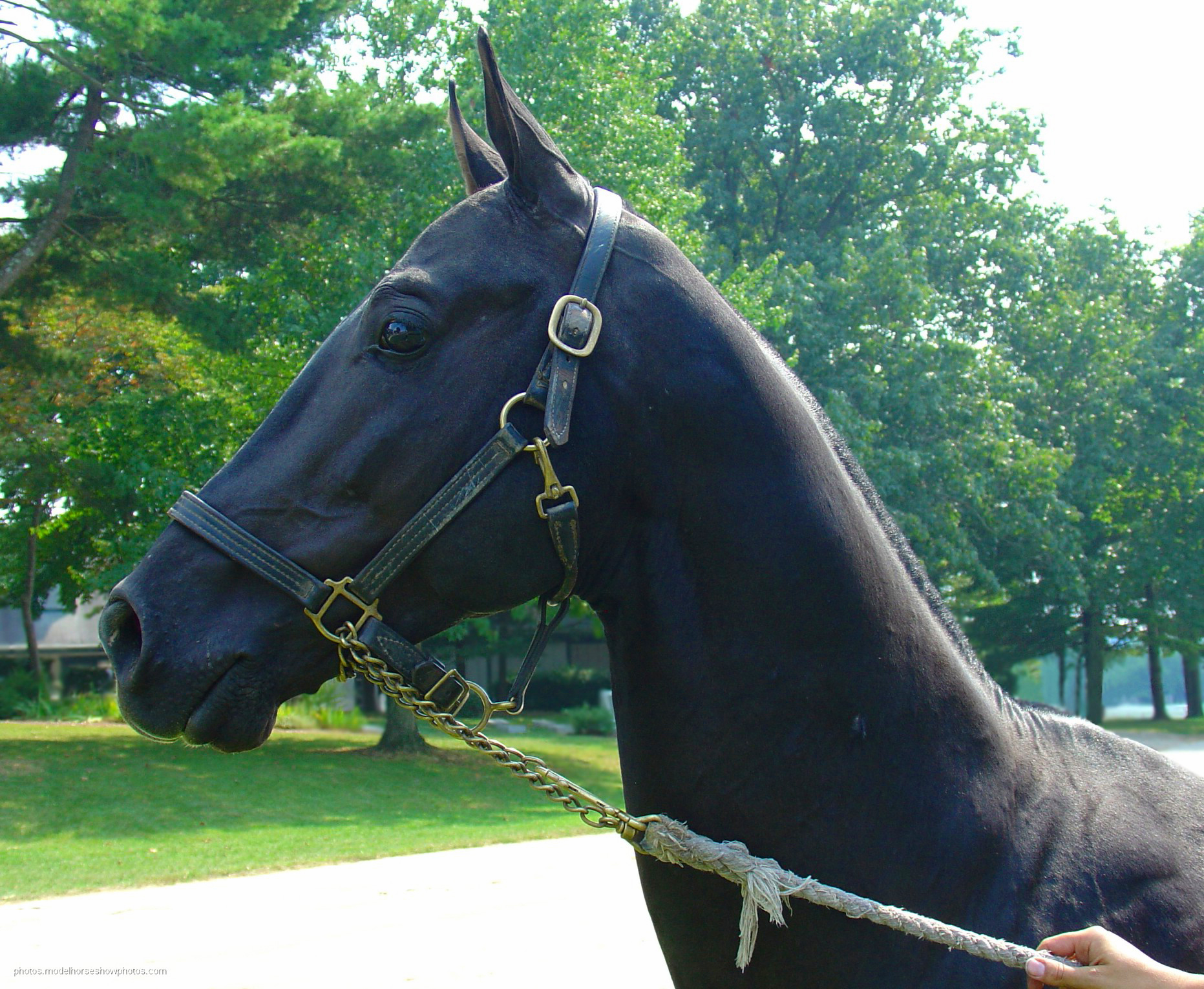 The Akhal Teke Stallion Salam. PHoto by Heather Abounader